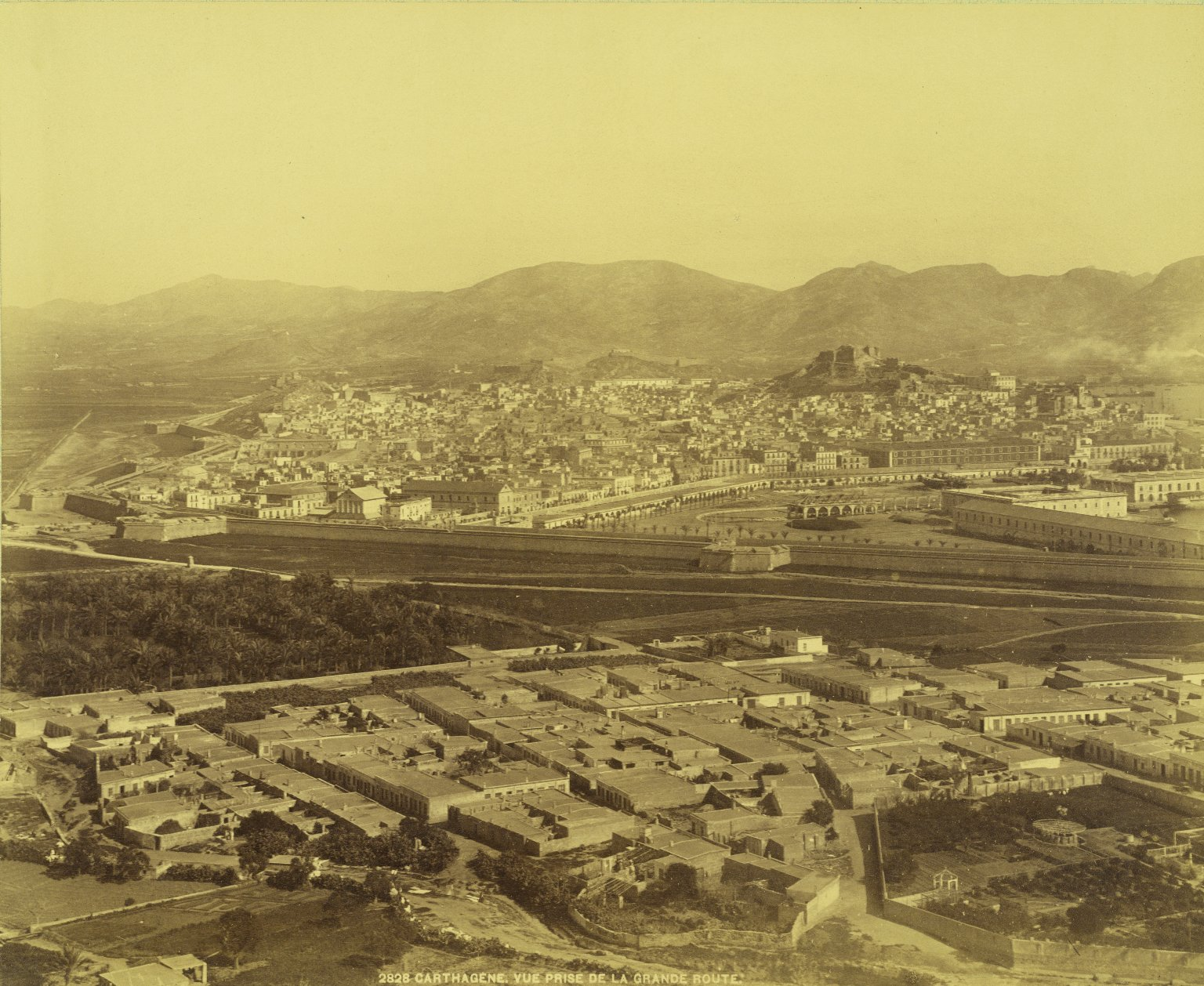 A. D. White Architectural Photographs, Cornell University Library Accession Number: 15/5/3090.01630 Cartagena. General View Photograph date: ca. 1865-ca. 1895 Location: Europe: Spain; Cartagena Materials: albumen print Provenance: Gift of Charles Mason Remey Persistent URI: There are no known copyright restrictions on this image. The digital file is owned by the Cornell University Library which is making it freely available with the request that, when possible, the Library be credited as its source. We had some help with the geocoding from Web Services by Yahoo!